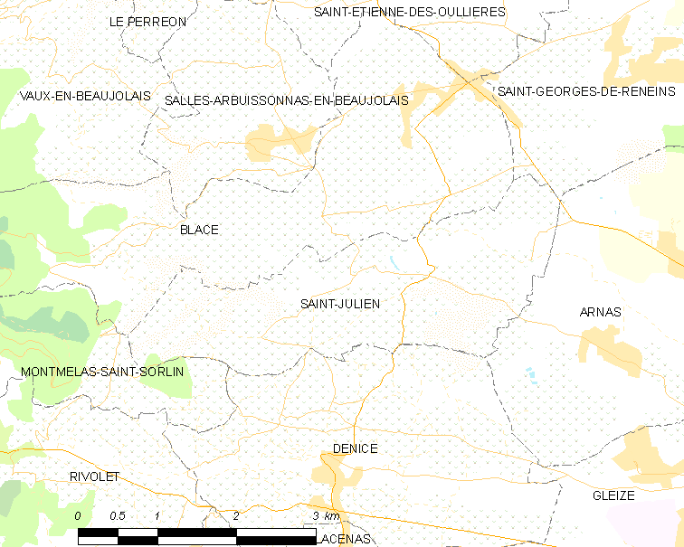 Map of French municipality